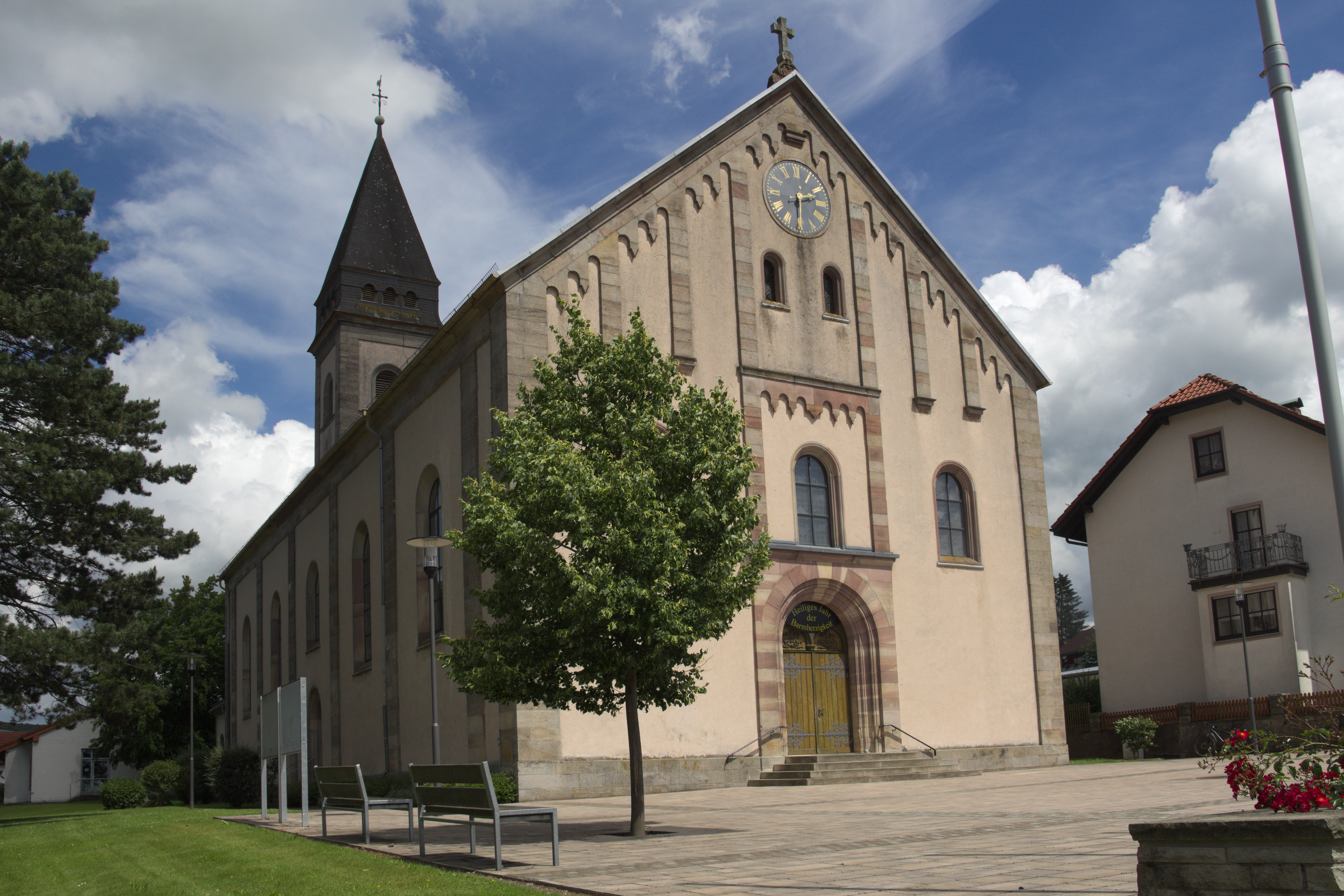 Catholic Church in Weyhers, Ebersburg, Hesse, Germany